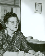 Former congresswoman Corinne Boyd Riley of South Carolina.